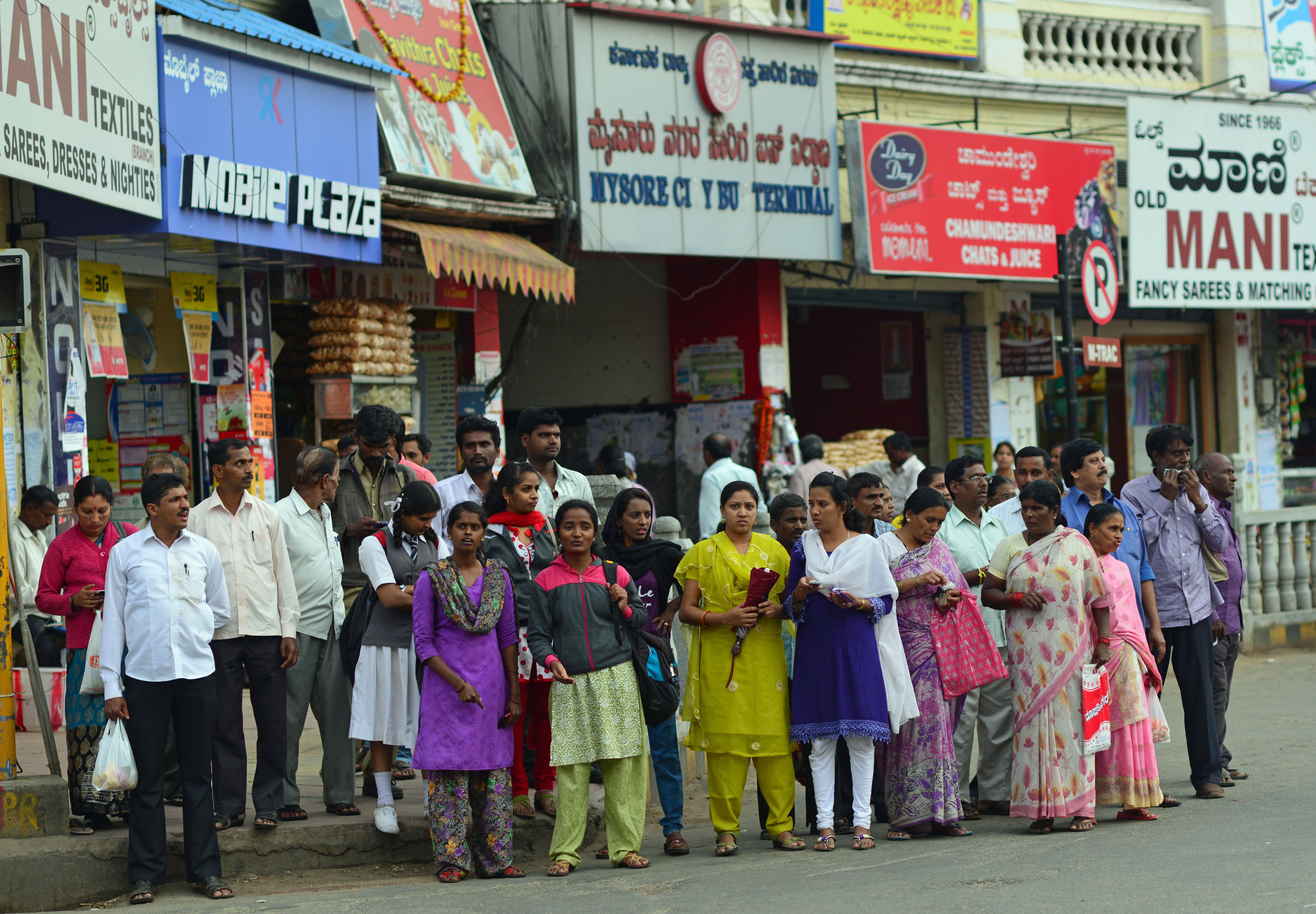 Pedestrians waiting at crossing, KR Circle, Mysore.